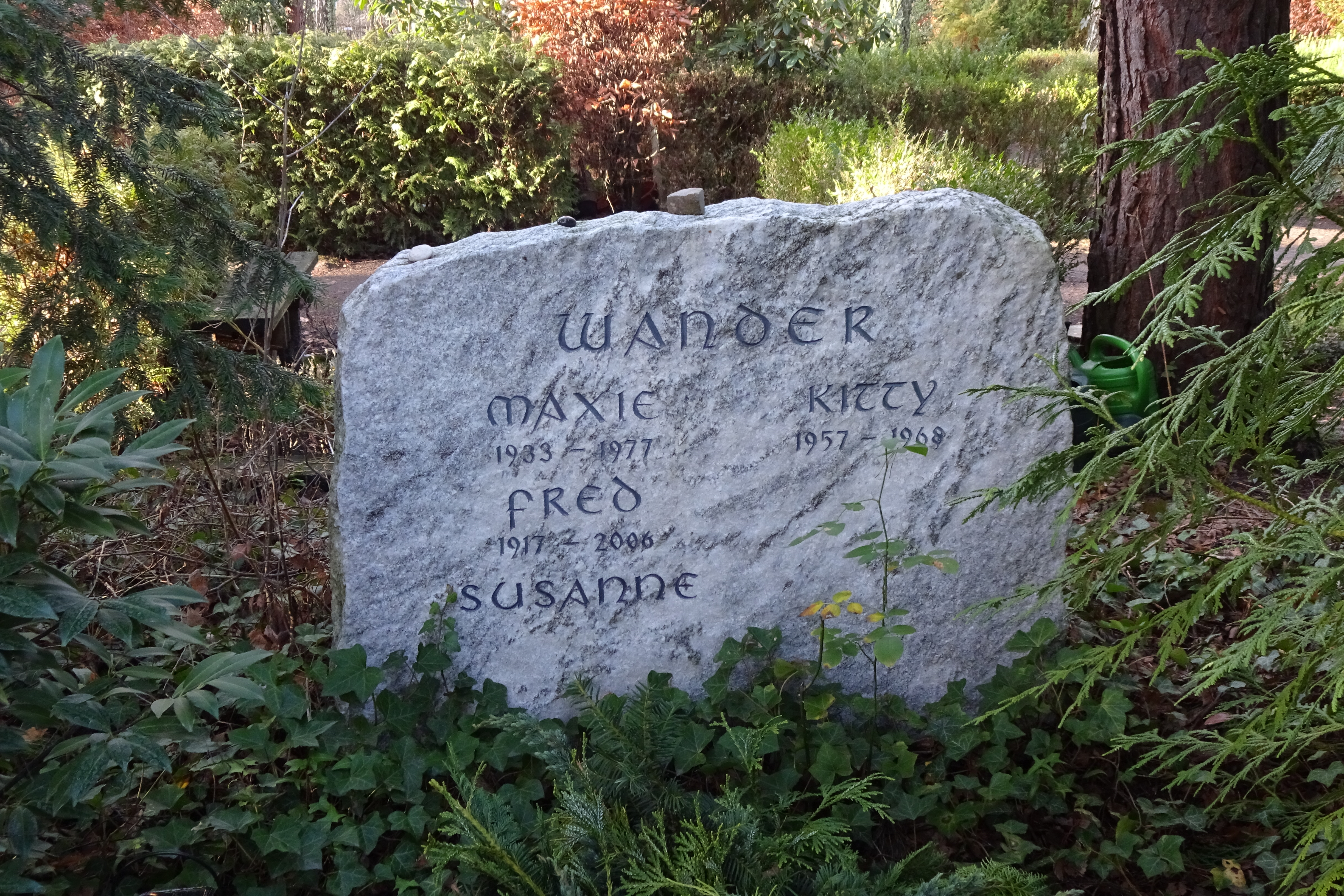 Grave of Austrian writers Maxie Wander and Fred Wander in Waldfriedhof Kleinmachnow in Kleinmachnow near Berlin